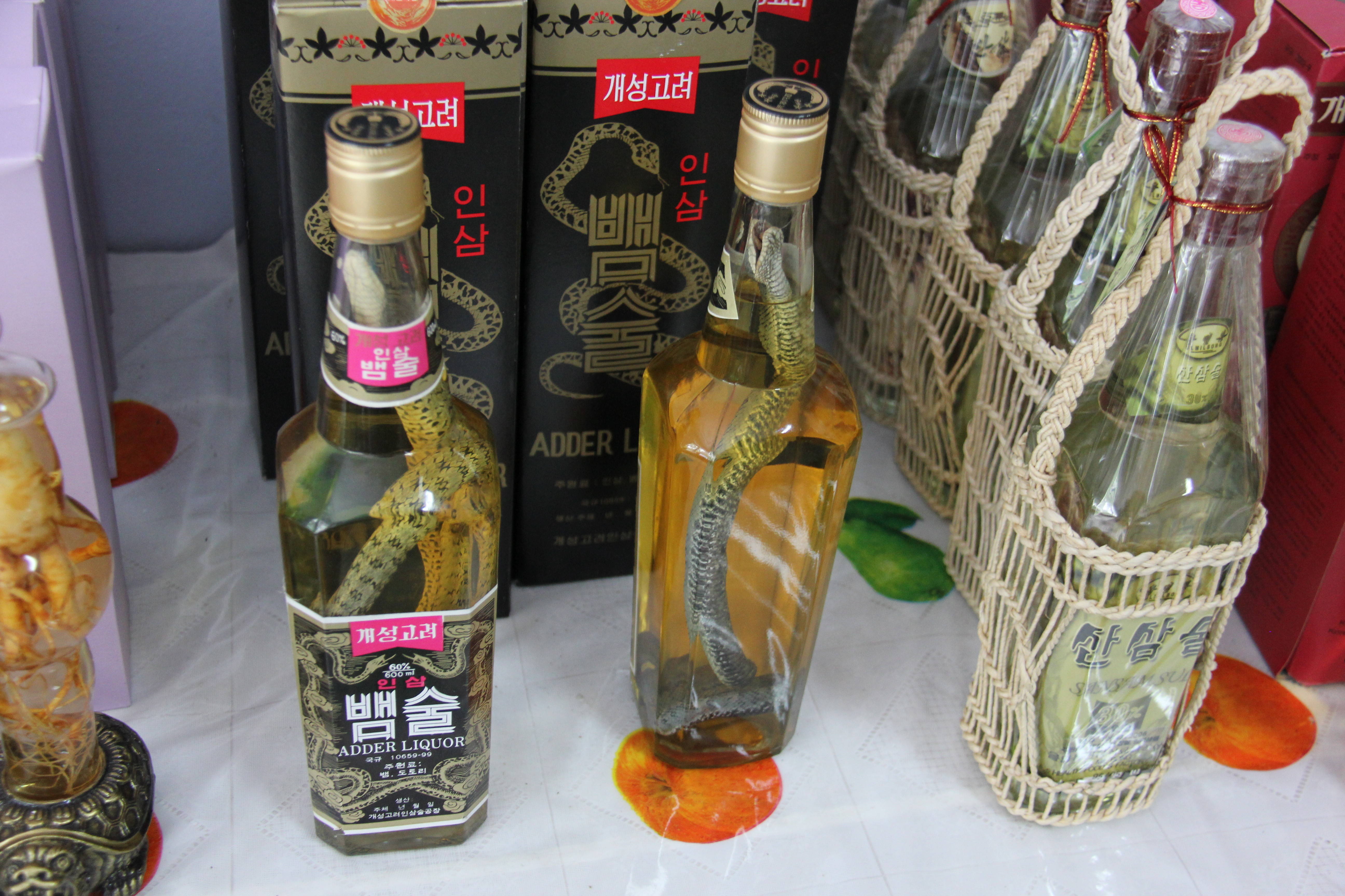 The DMZ even has a gift shop.